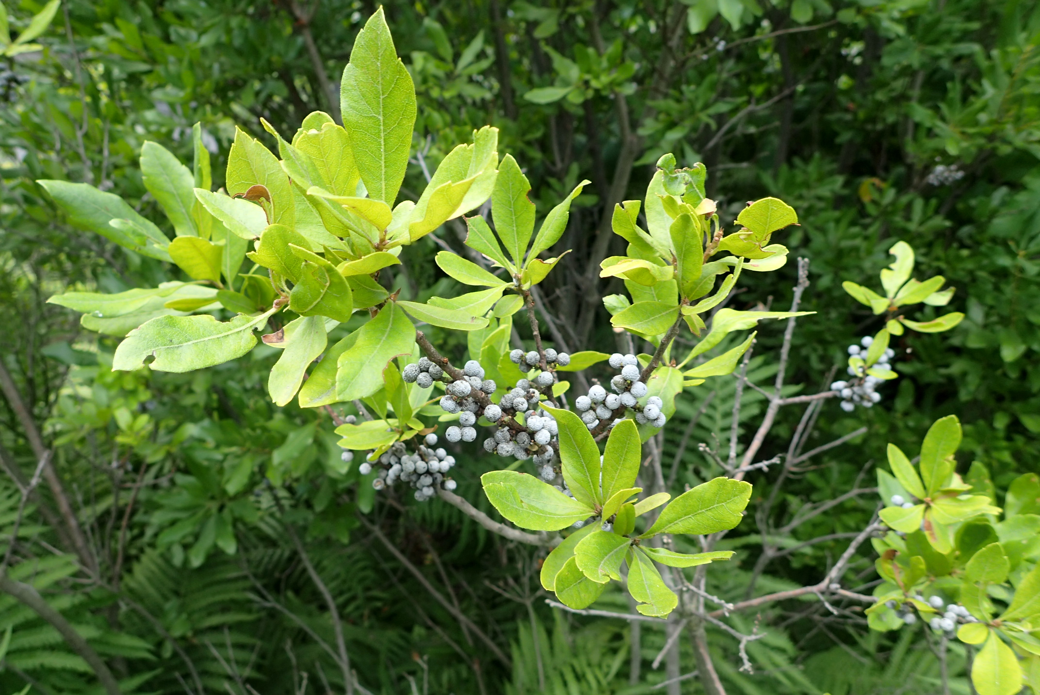 Morella pensylvanica at the New York Botanical Garden